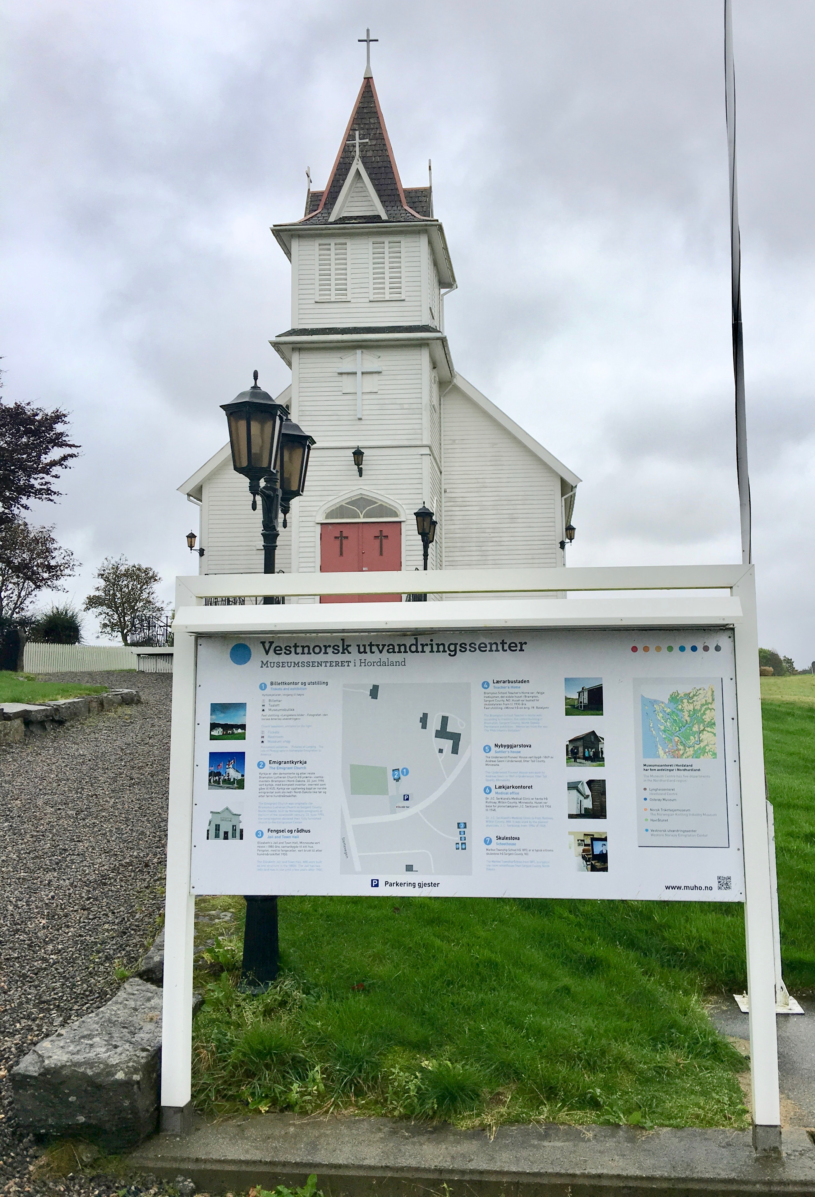 Information board by the "Emigrantkyrkja/Emigrantkirken" (former Brampton Lutheran Church, North Dakota) moved 1996 to "Vestnorsk utvandringssenter/utvandrarsenter" (Western Norway Emigration Center) in Radøy, Hordaland, Norway. Photo 2017-10-03